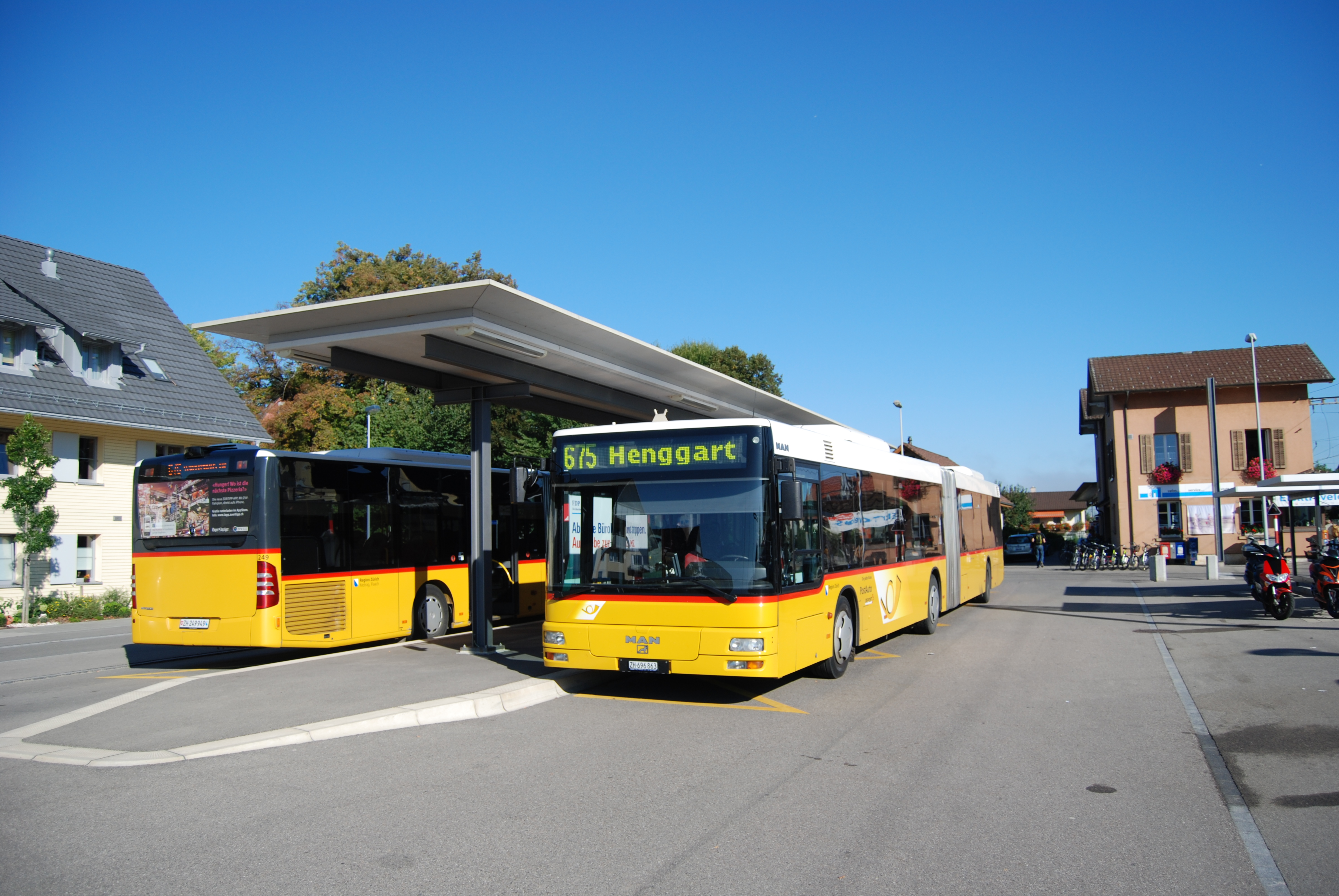 Train station of Henggart, canton of Zürich, Switzerland